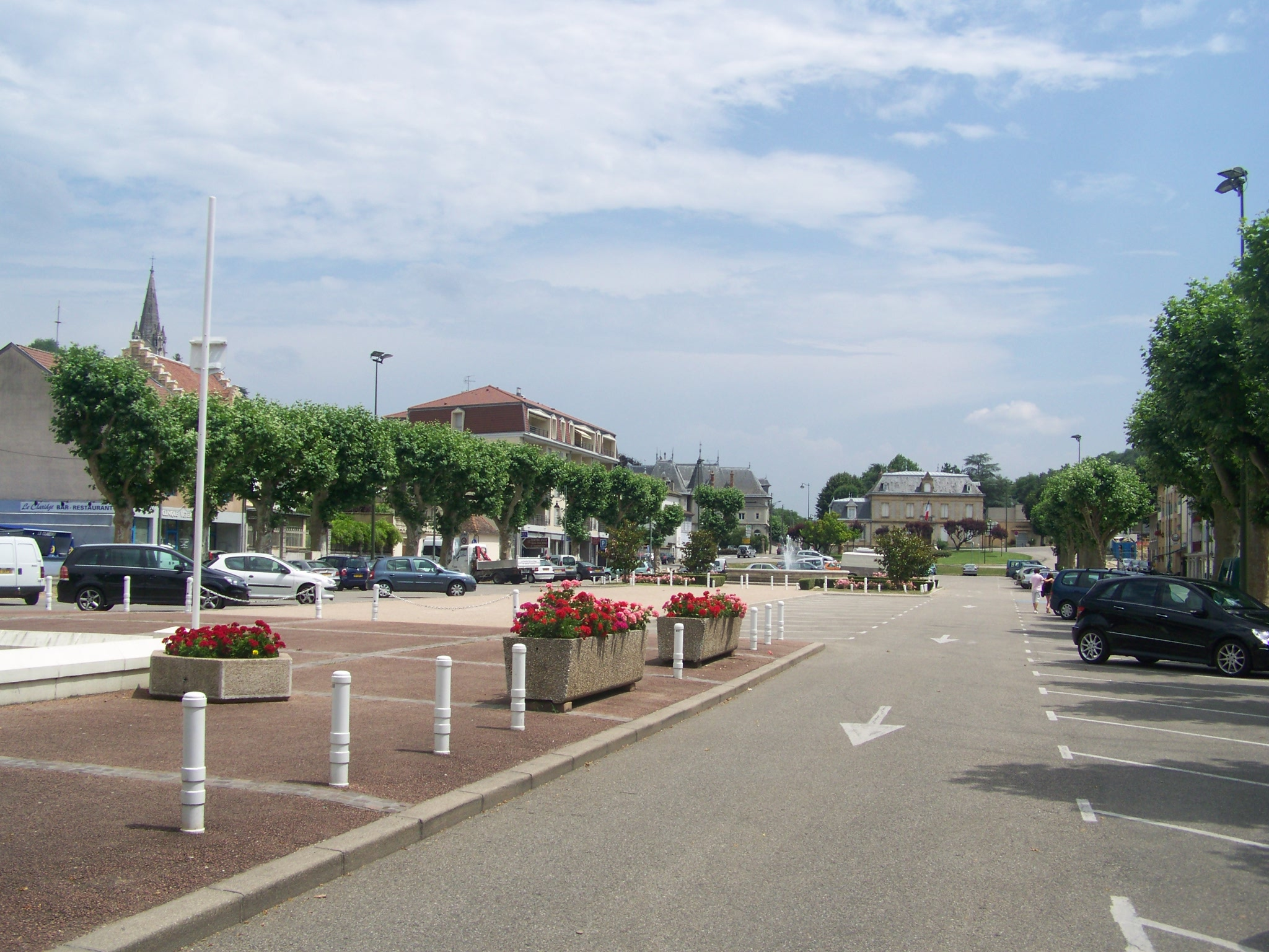 Sight of city of La Tour du Pin center, in Isère, France.